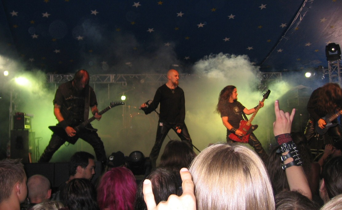 Swedish black metal band Naglfar performing at Tuska Open Air Metal Festival 2005.